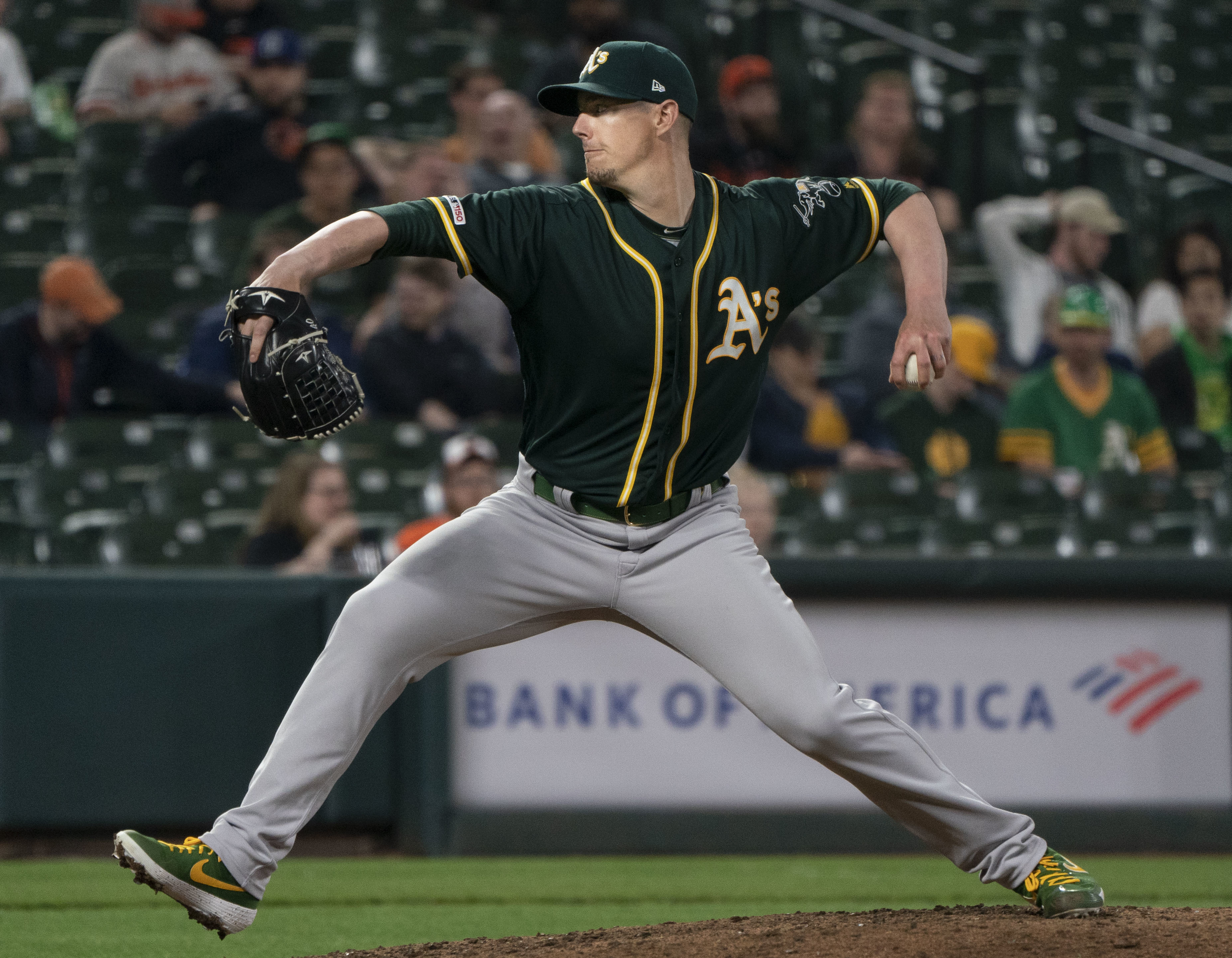 Ryan Buchter delivers a pitch for the Oakland Athletics during a 2019 game at Camden Yards in Baltimore